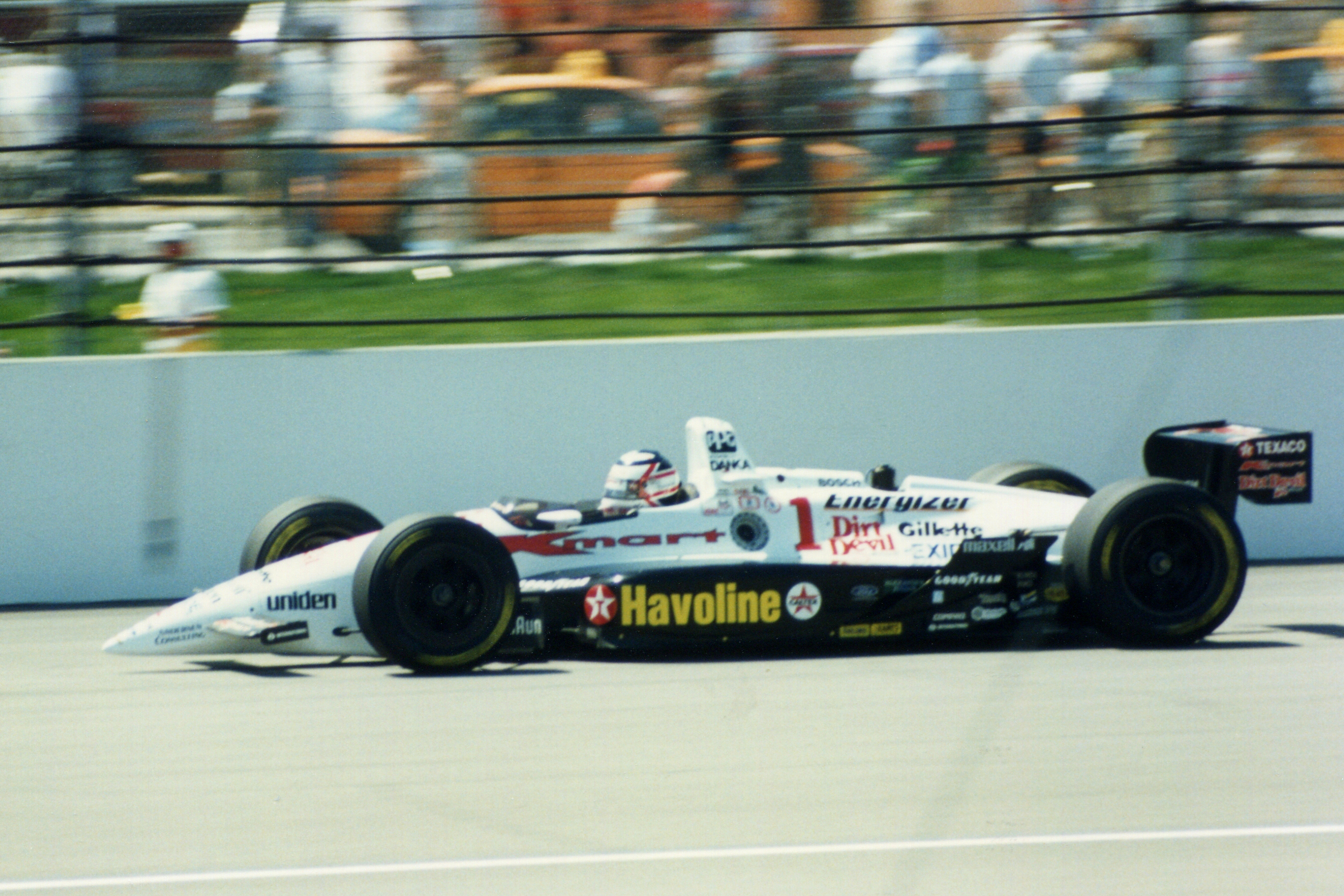 Nigel Mansell competing in the Indianapolis 500 for Newman/Haas Racing on May 29, 1994